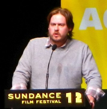 Tim Heidecker onstage presenting at the Sundance Awards Ceremony